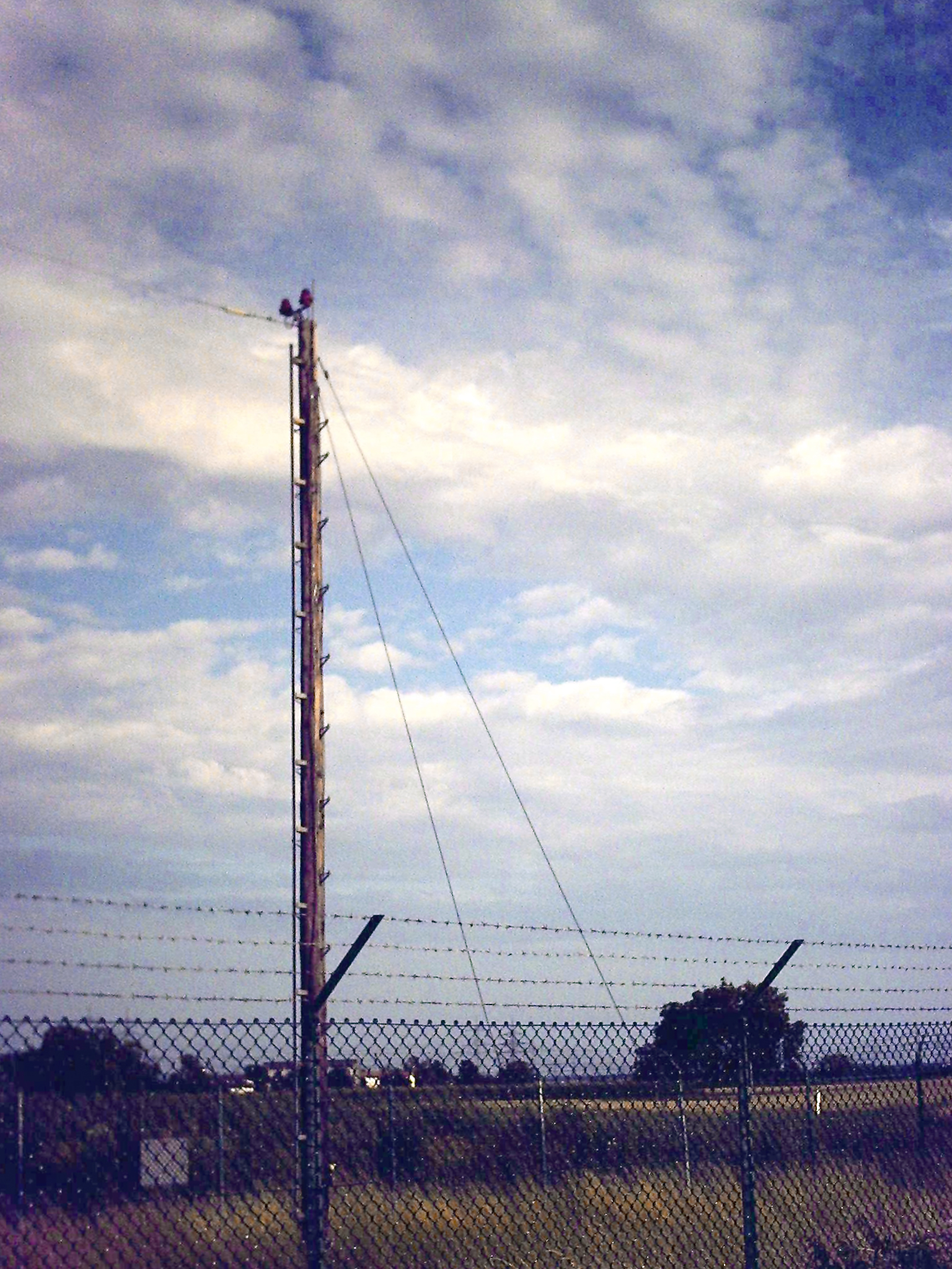 Antenna mast of NDB HDL Plankstadt, Germany